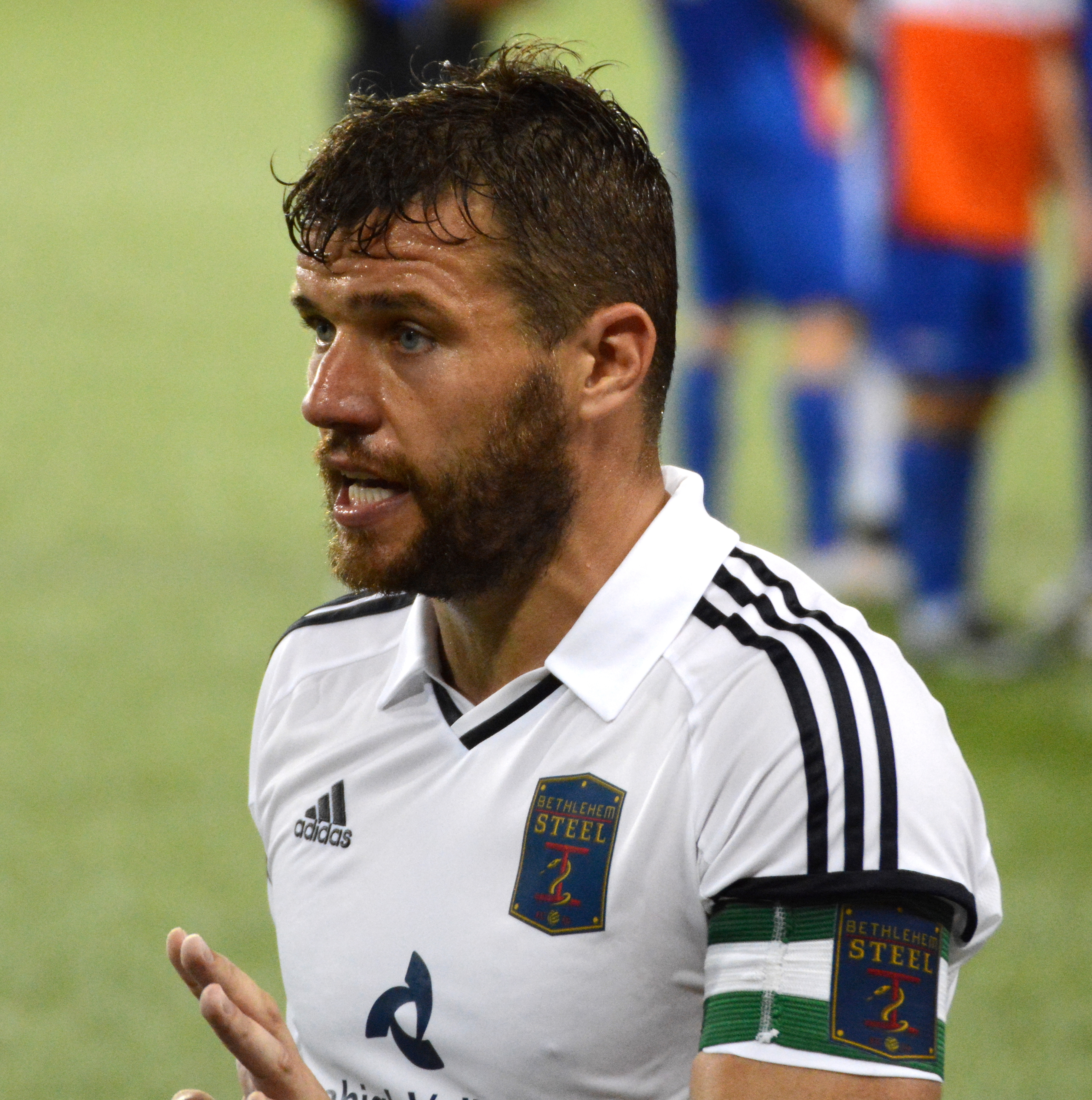 A portrait of Irish footballer James Chambers, a midfielder for Bethlehem Steel FC, as he approached the referee to dispute a call. Taken during a match between FC Cincinnati and Bethlehem Steel FC at Nippert Stadium in Cincinnati, USA on May 20, 2017.